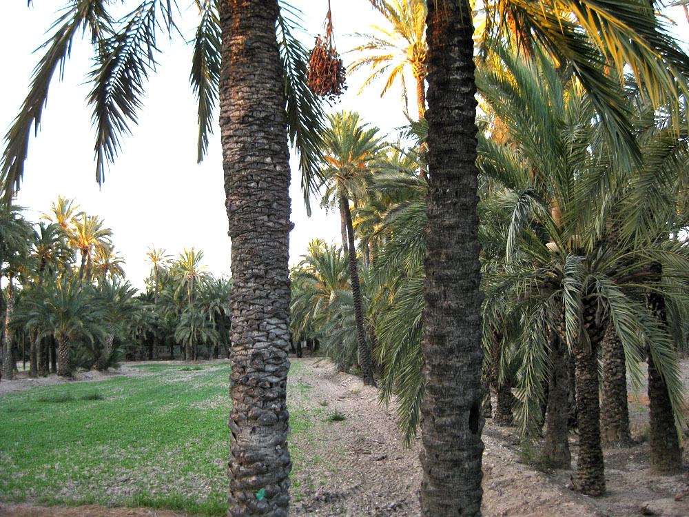 Hort or small orchard in the Elche palm groves, Valencian Counrty, Spain. Hort de palmeres típic del Palmerar d'Elx, al País Valencià.